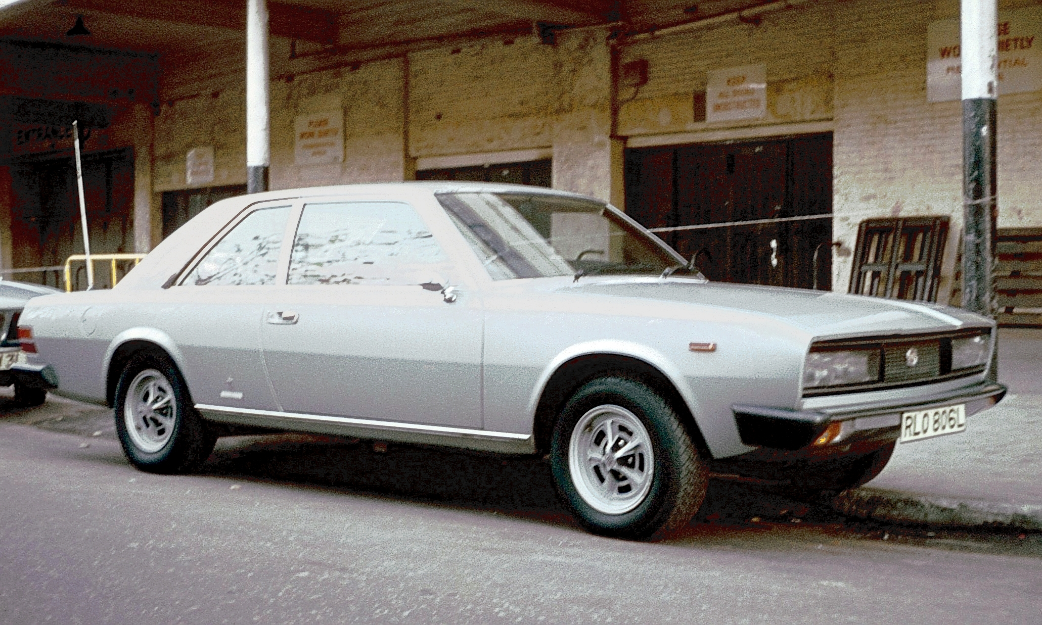 Fiat 130 Coupe at the back of the exhibition hall during the London Motor Show in 1972 DVLA data First registered in UK May 1973 Manufactured 1973 Engine capacy 3235 cc Not taxed for UK road use since March 1985